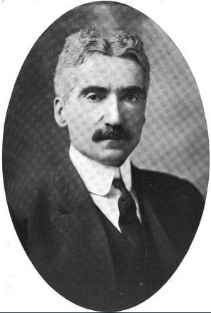 Thomas F. Conway, Lieutenant Governor of New York